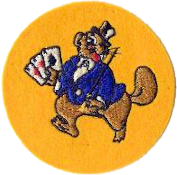 125th Liaison Squadron - World War II - Patch